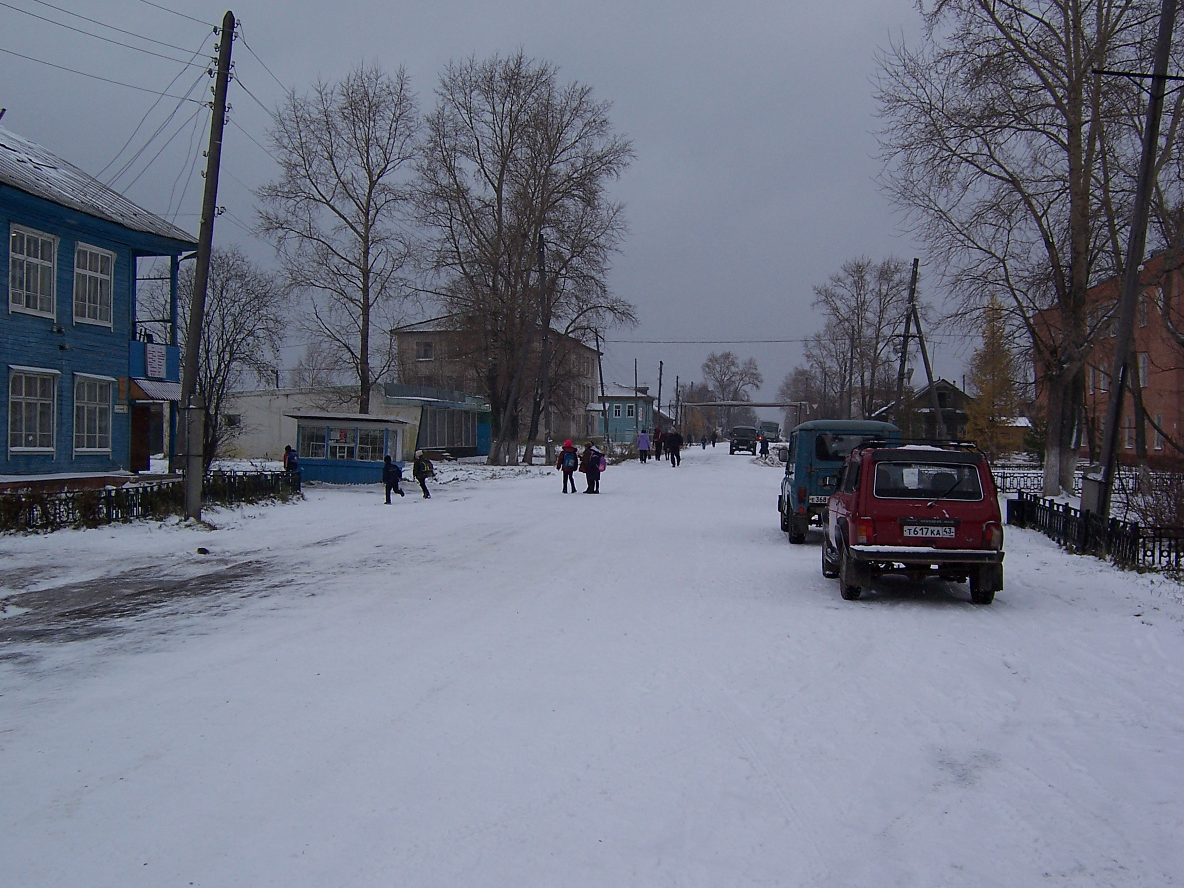 Oparino settlement, Kirovskaya region, Russia. Pervomajskaya street view.